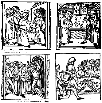 Panels from a woodcut showing the alleged desecration of the Host by Jews in Passau, Bavaria: a) Jews (with badges) carry a box containing the host into the synagogue. b) Blood flows from the Host when pierced by a Jew. c) The Jews are arrested... d) ... and burned. From Beyond the Pale exhibit. German woodcut